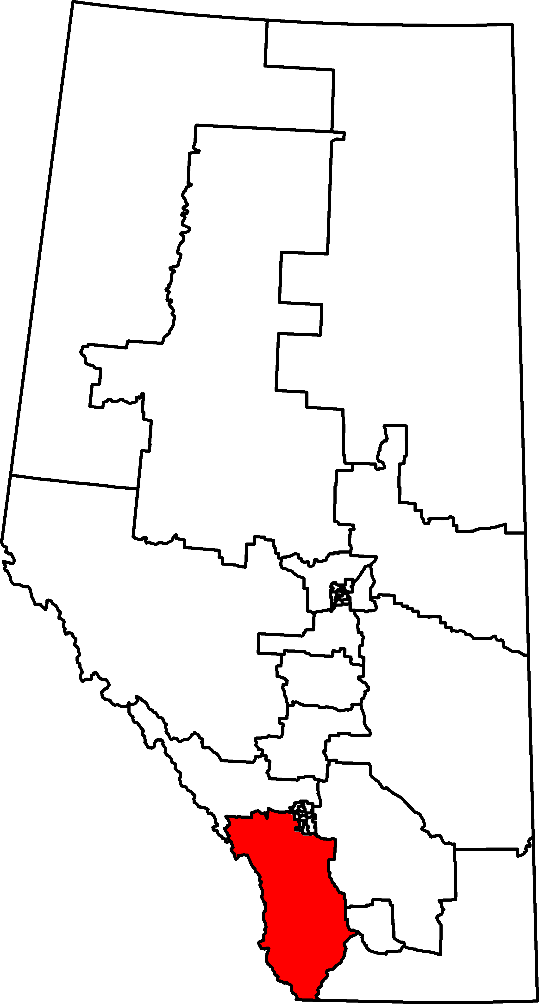 Federal Electoral District in Alberta, Canada as of the 2013 Representation Order.